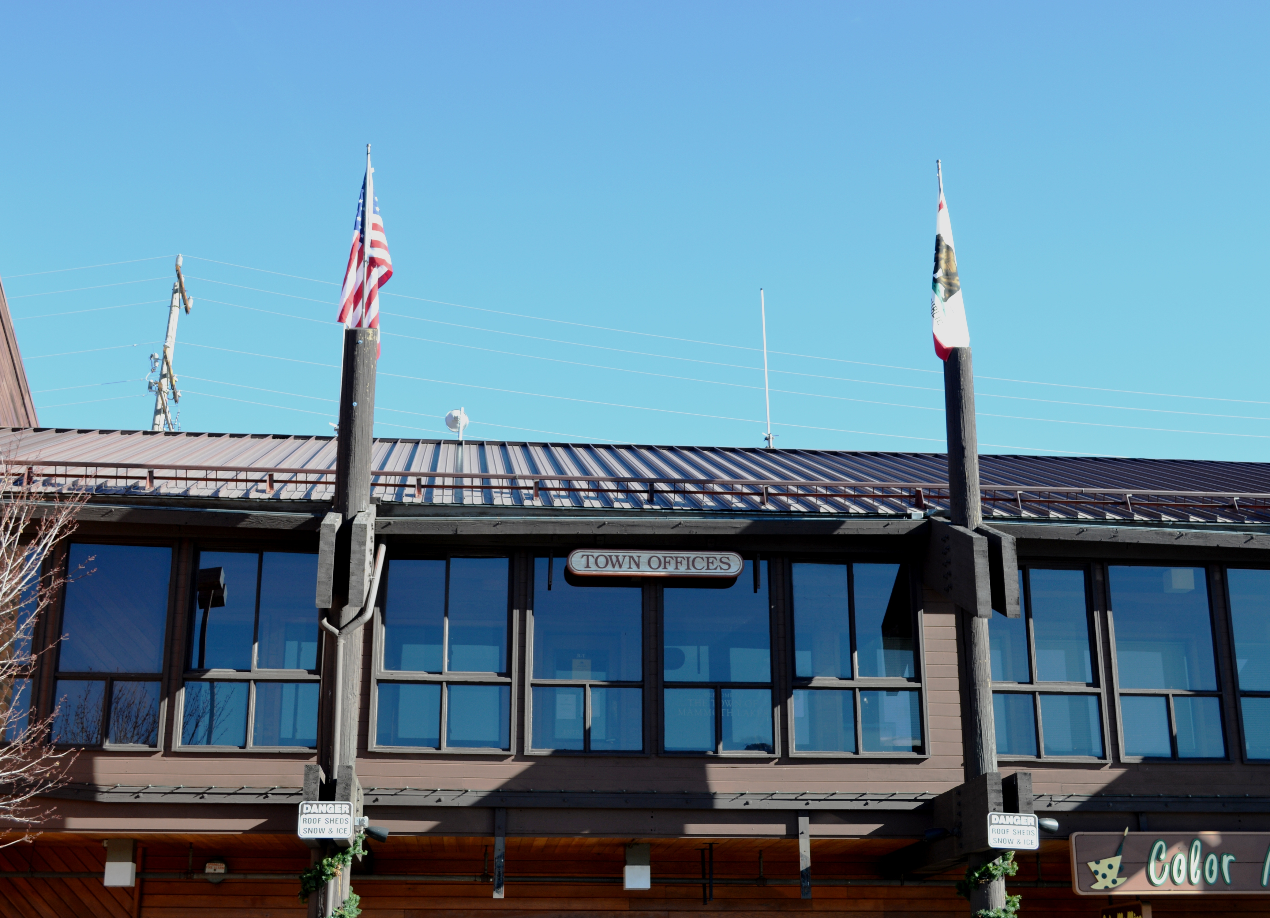 Town offices of Mammoth Lakes, California, U.S.A., located on the 2nd floor of Minaret Village Shopping Center.[1]